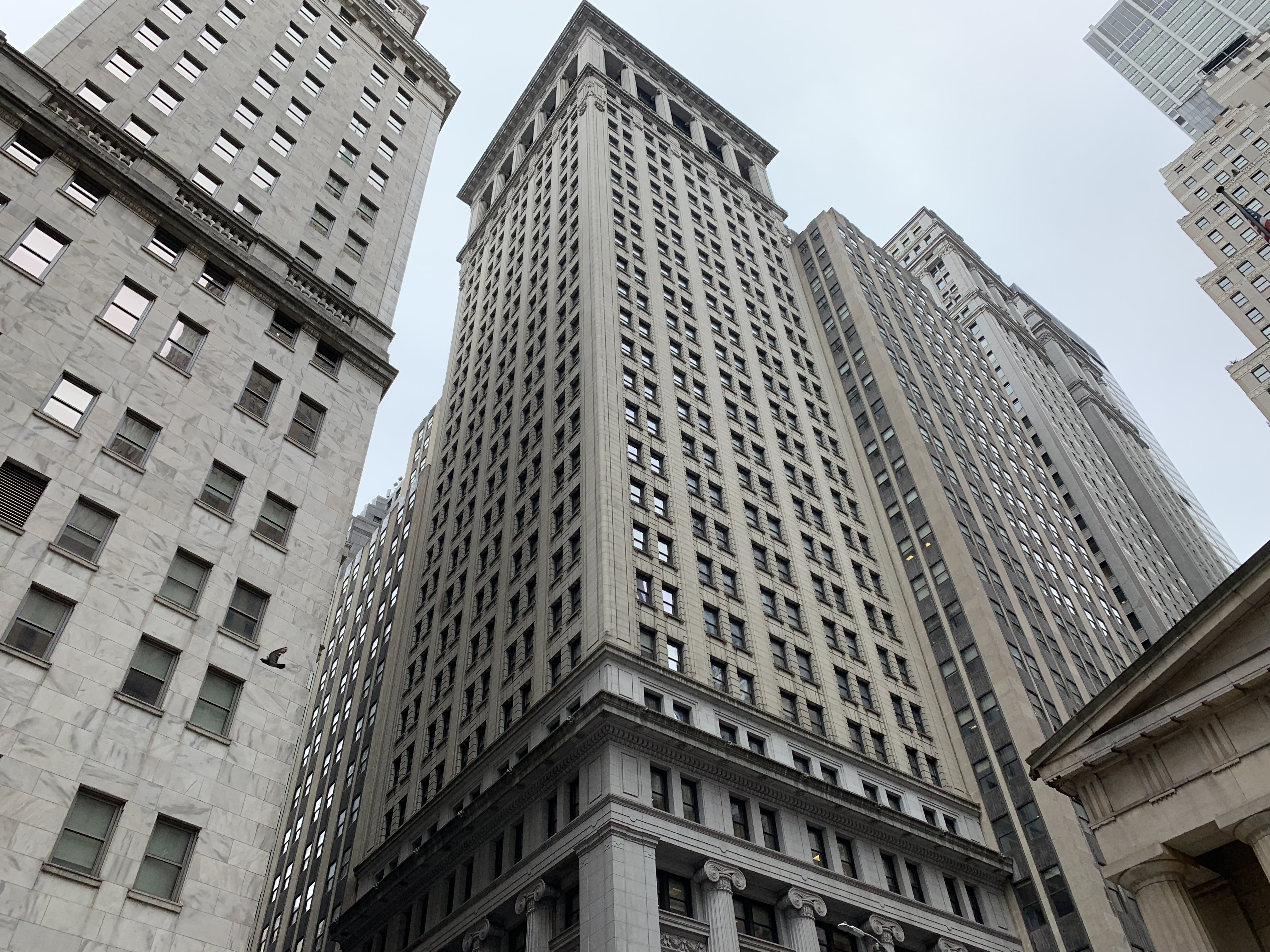 14 Wall Street, with Federal Hall at lower right and the Equitable Building at right background. Taken on a cloudy New York City day.